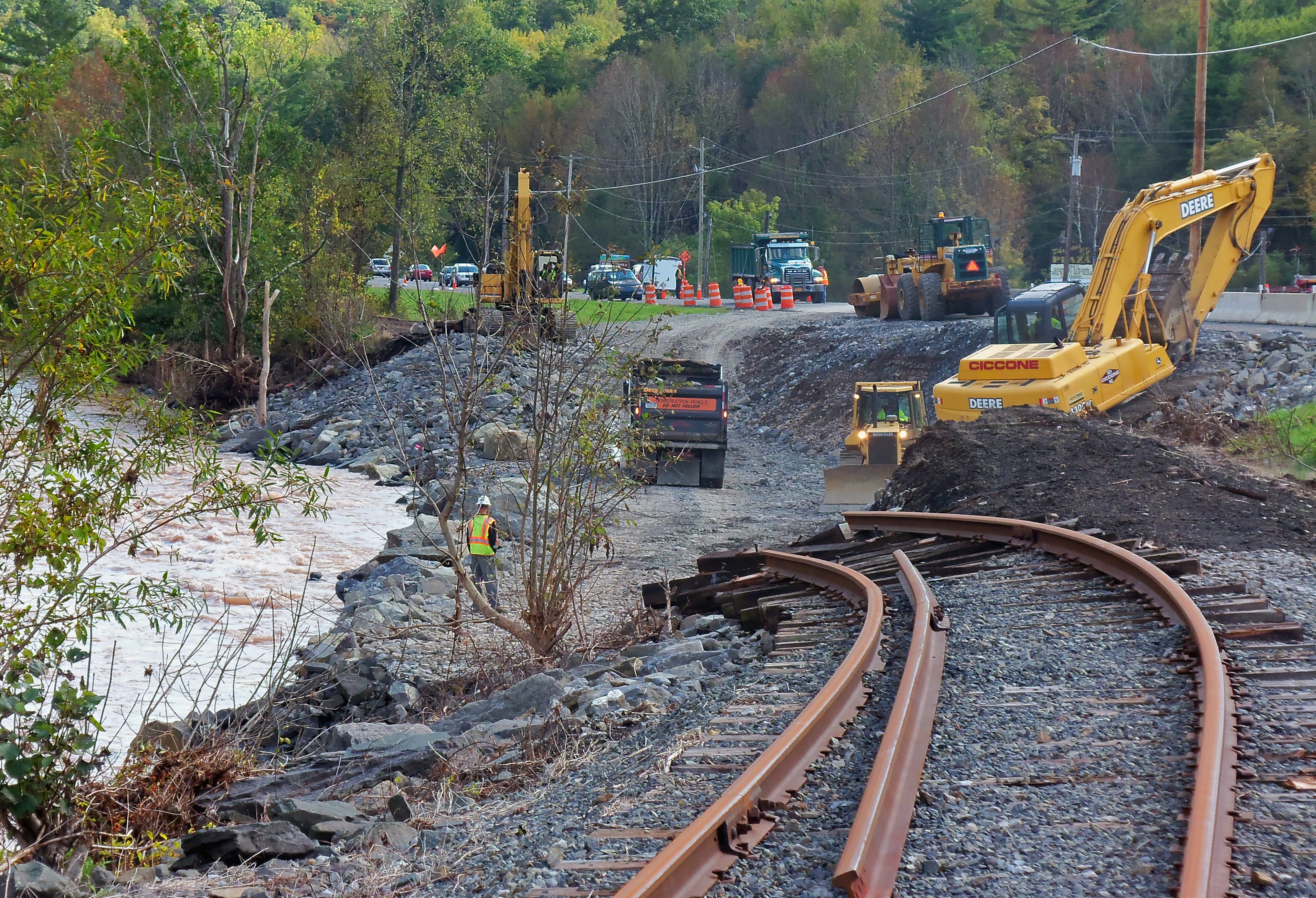 Repair work to tracks of Catskill Mountain Railroad where they fell into Esopus Creek as a result of floods following Hurricane Irene backs up traffic on an adjacent stretch of NY 28 near Phoenicia, NY, USA